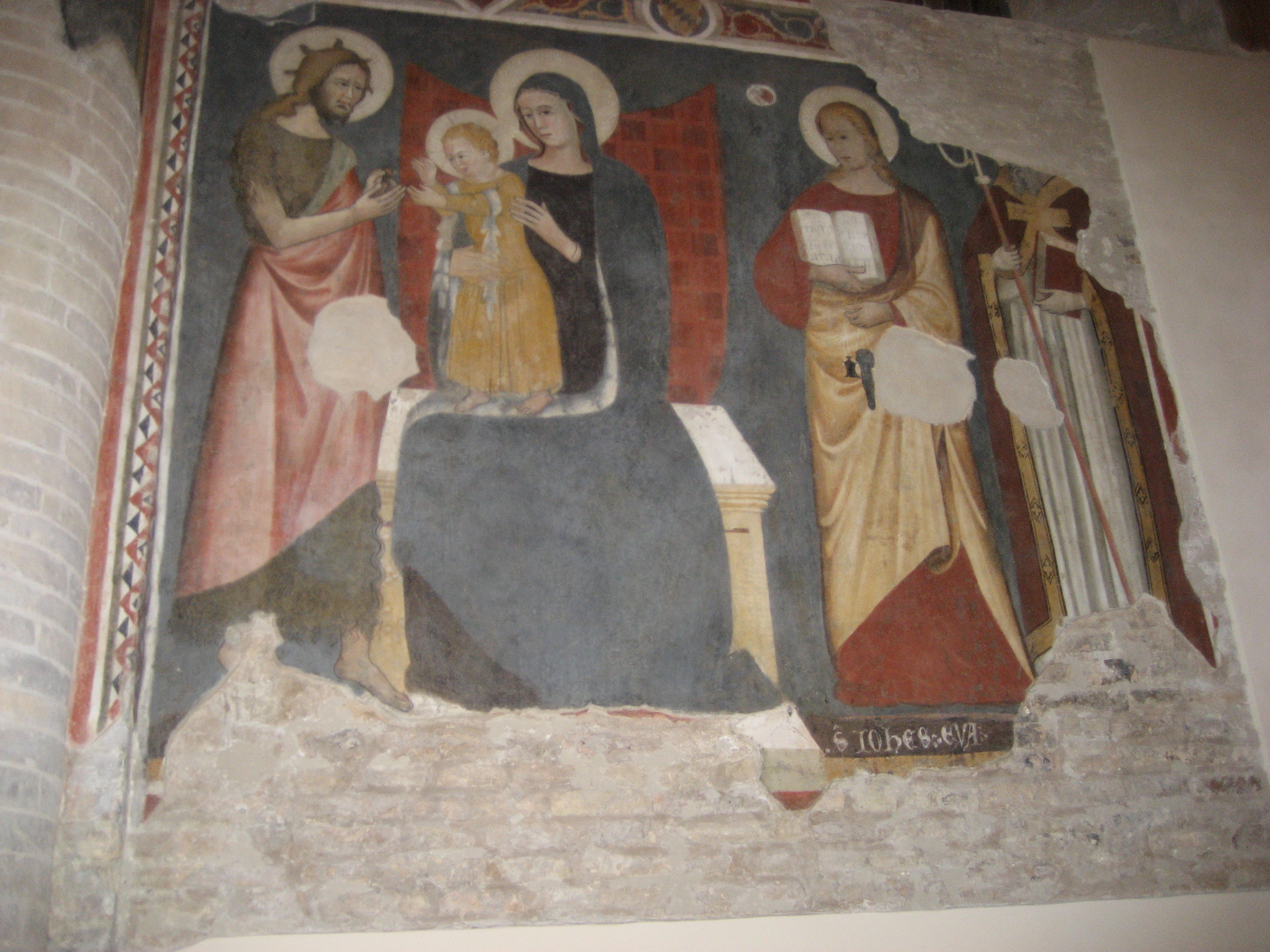 I in the right aisle of the Cathedral of Atria. Does it represent the Madonna with Child among the saints Giovanni Battista, Giovanni Evangelista and Berardo (?), more known as Madonna of the Goldfinch, considering that the small Jesus hands this bird to the Baptist. It was realized at the end of the XIV century from the Maestro of Offida, artist identified in Luca of Atri of the Abruzzo.